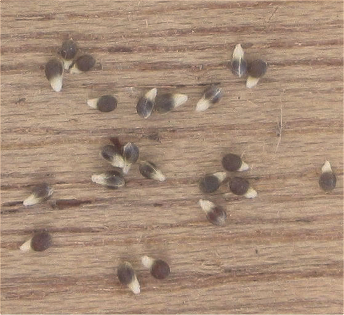 Luzula campestris seeds